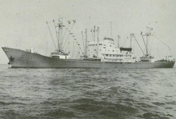 MV Natanya from Europe Lines ZIM, a General cargo ship that gave backup in the Bay of Biscay for the Navy boats.